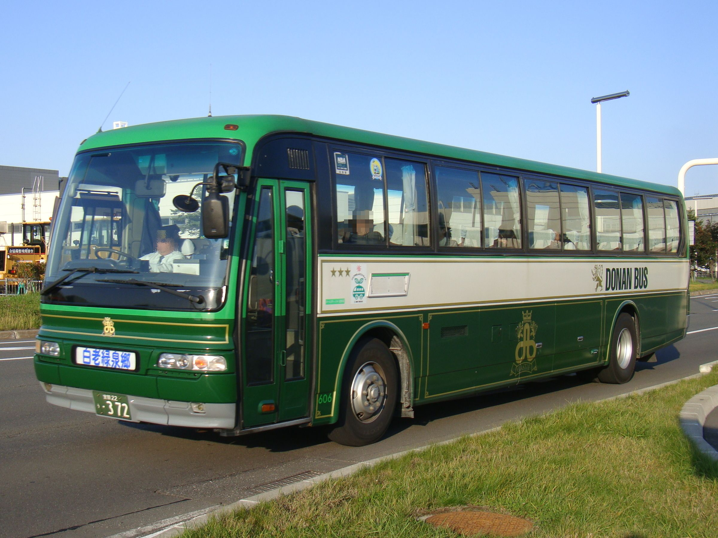 New Chitose Airport to Shiraoi